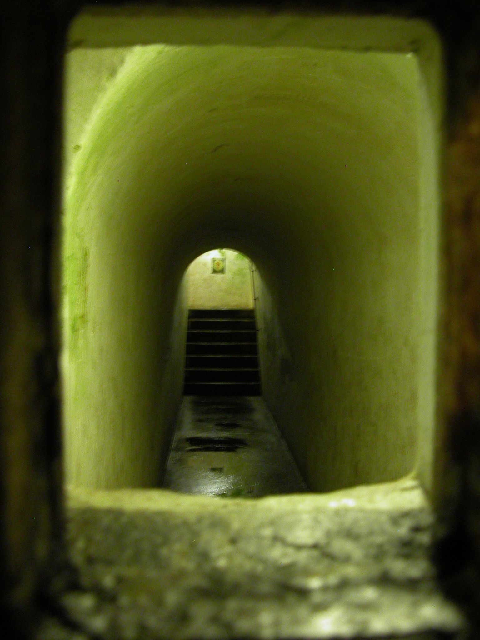 Part of the WWII bunker system under the "Hotel Zum Tuken" in Obersalzberg, Germany - Another view from a machinegun port.